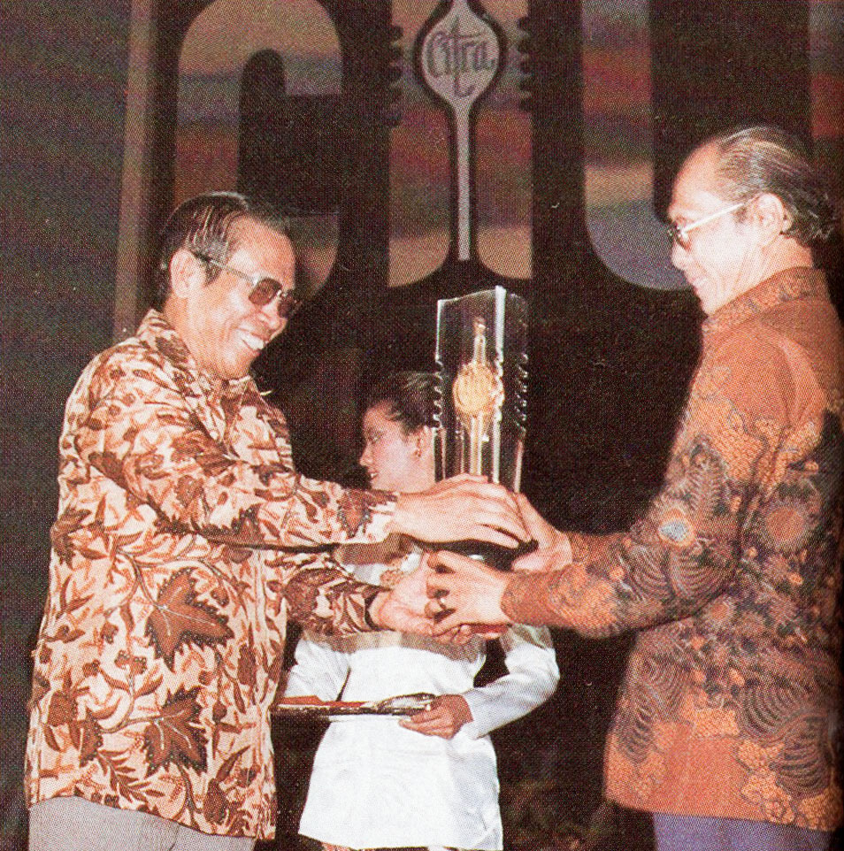 Ali Moertopo giving the Citra Award for Best Film to Gufran Dwipayana for Serangan Fajar at the 1982 Indonesian Film Festival in Jakarta.